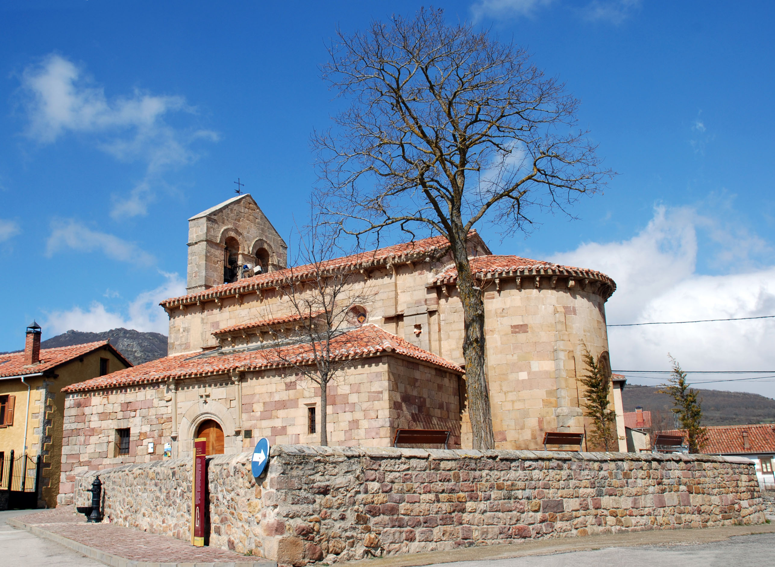 Church of San Cipriano in Revilla de Santullán (Palencia, Castile and León).